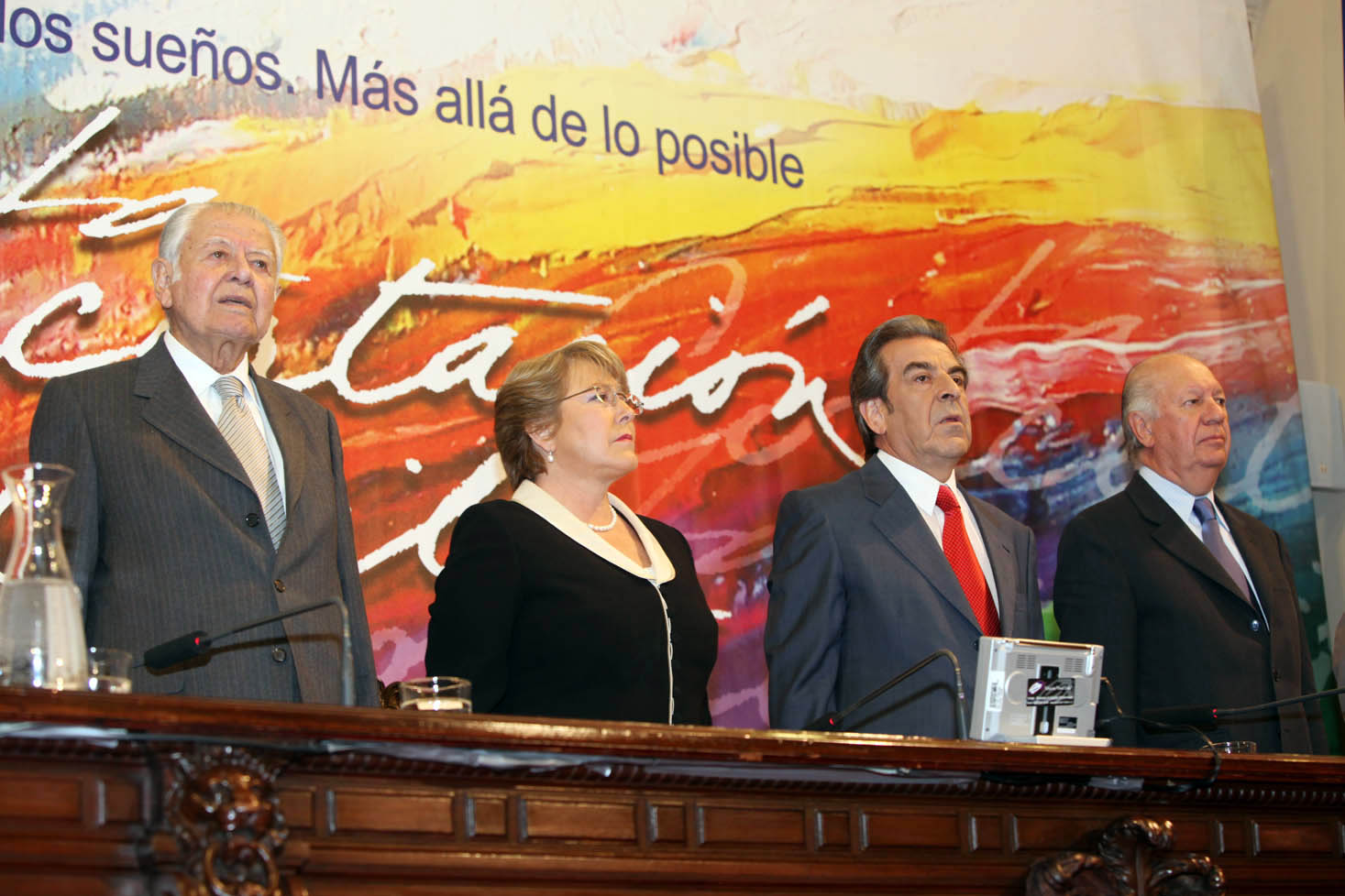 The four Presidents of Chile from Concertación (Patricio Aylwin, Michelle Bachelet, Eduardo Frei Ruiz-Tagle and Ricardo Lagos) in the celebration of the 21st anniversary of the victory of the "NO" option in the plebiscite of 1988.